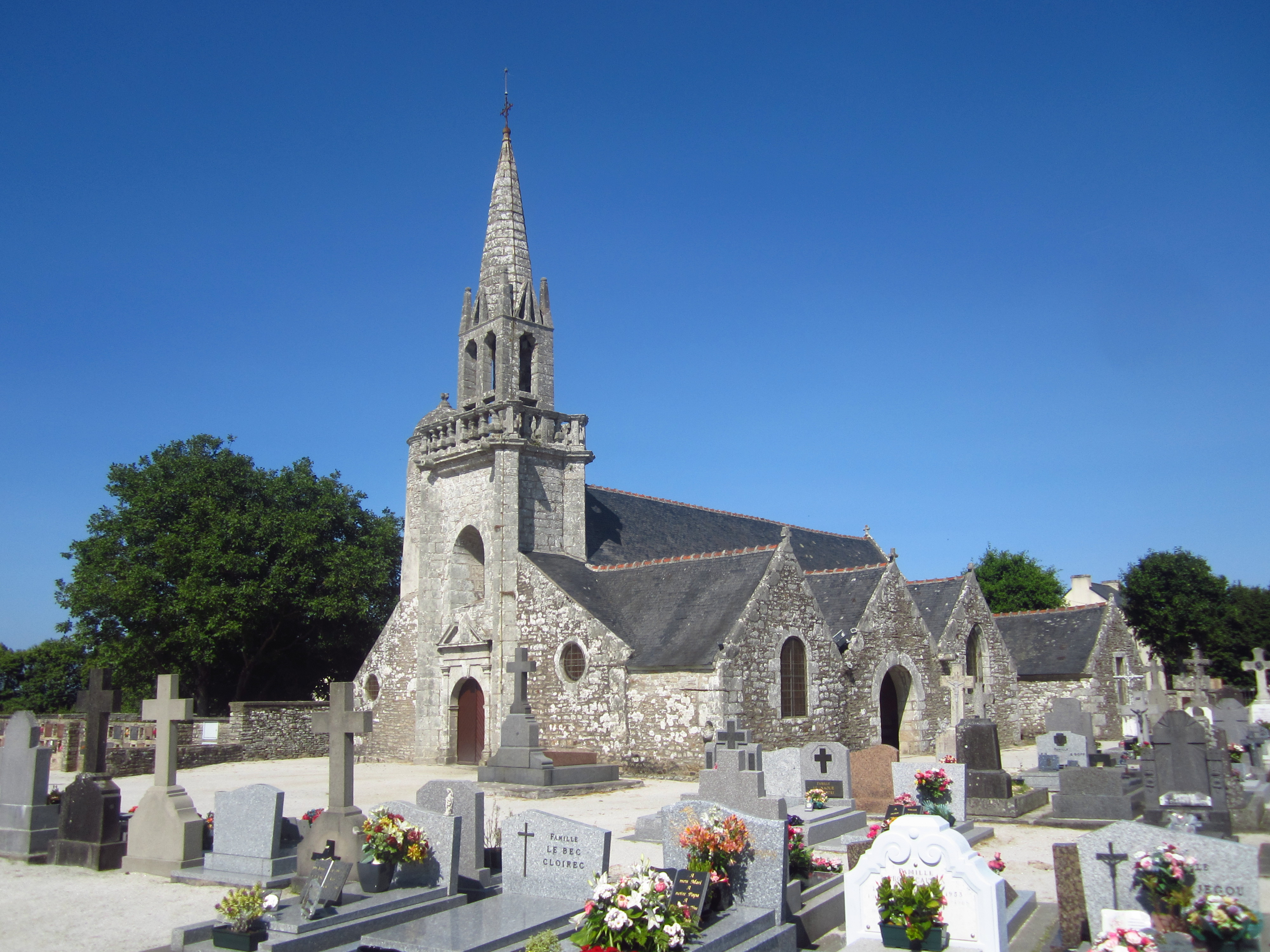 Church of Tréméven, Finistère